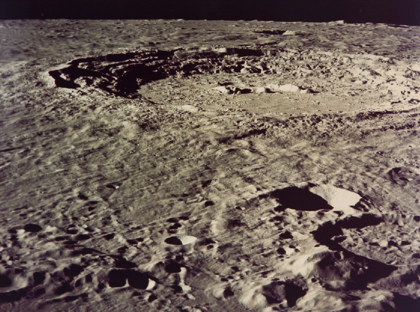 Copernicus from Apollo 17.